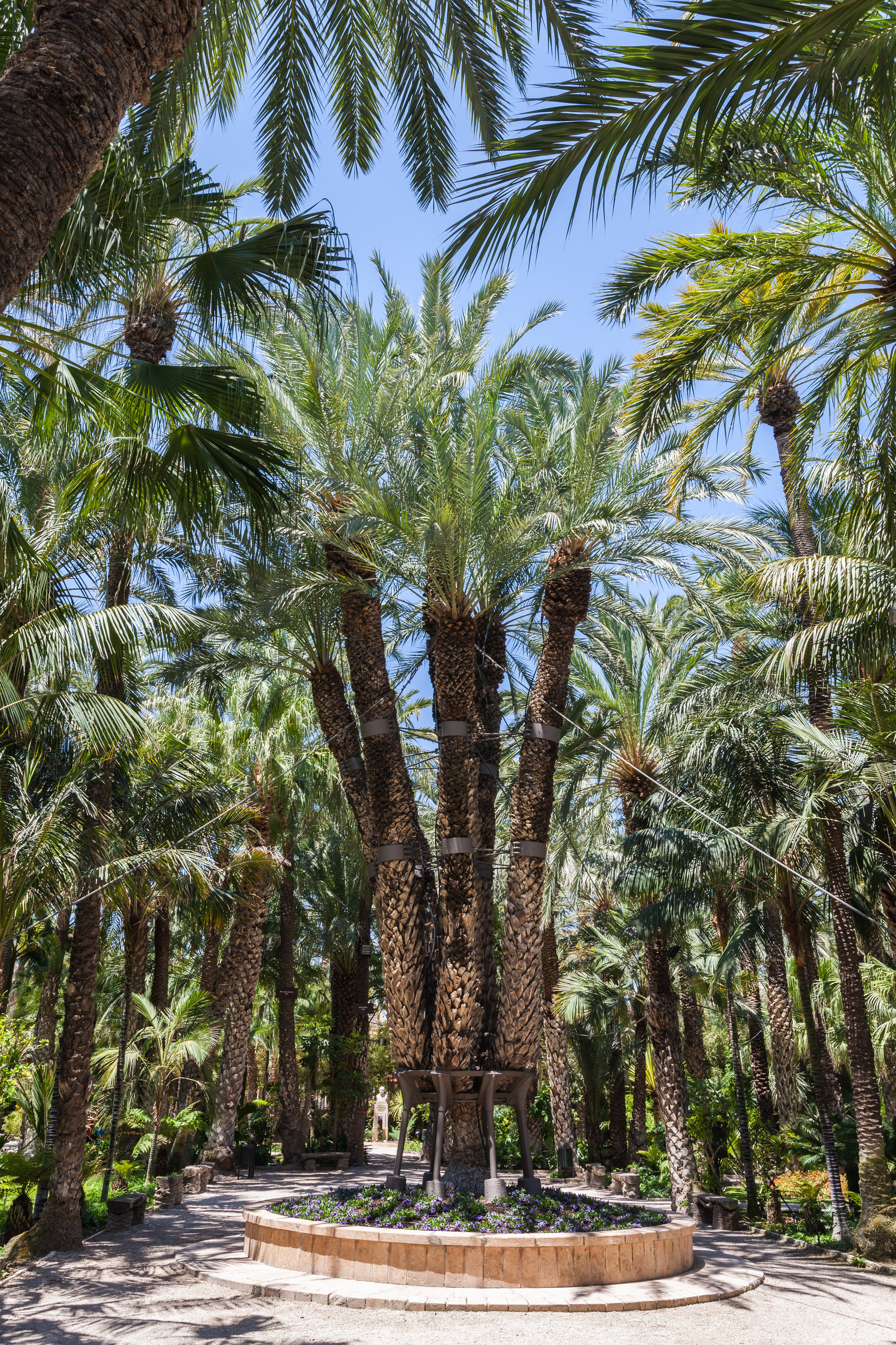 Huerto del Cura (Priest's vegetable garden), Elche, Spain